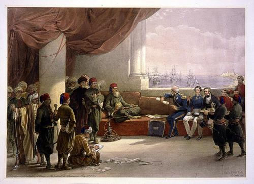 Authors: David Roberts & Louis Haghe